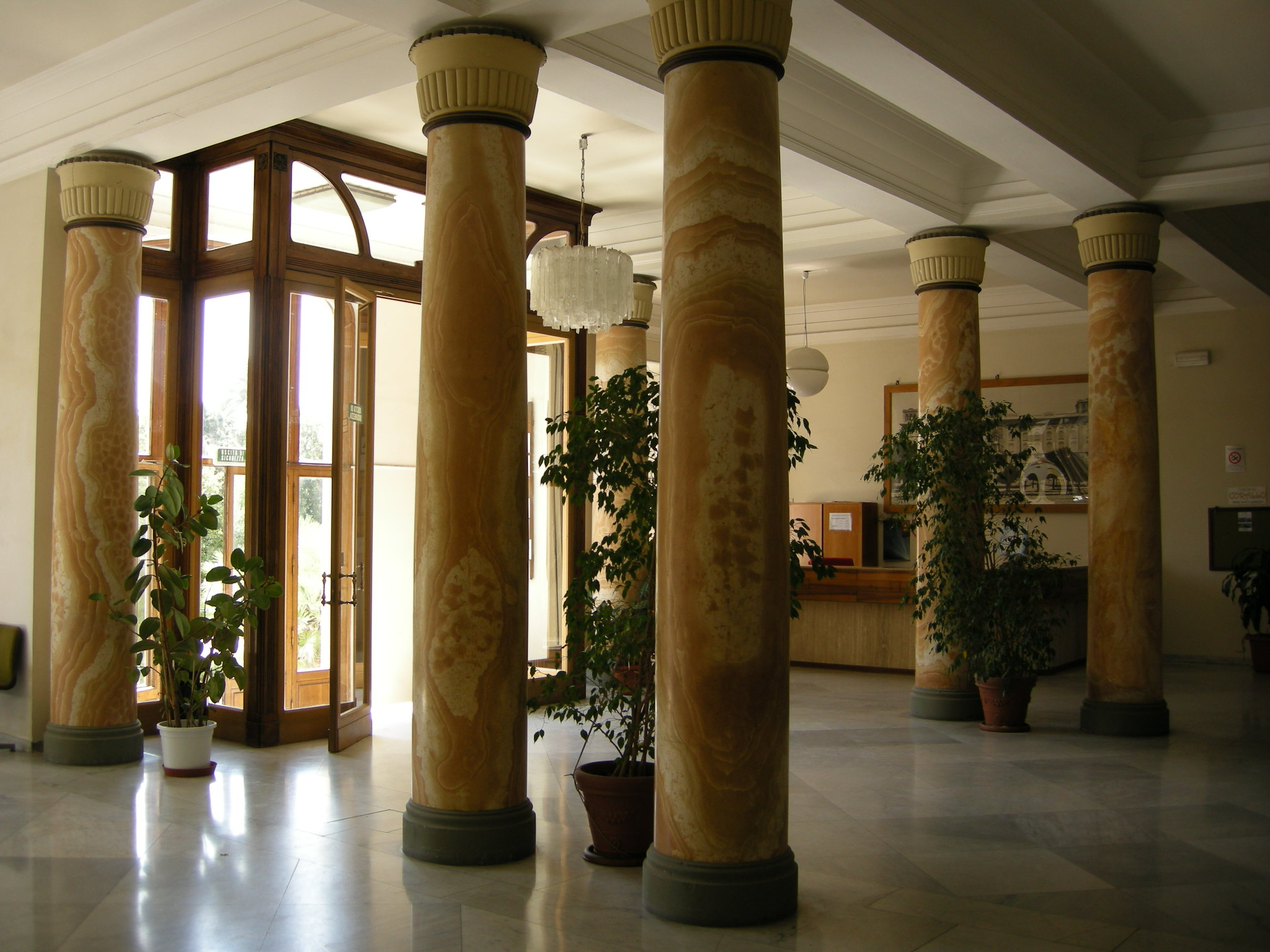 Grand hotel corallo, interno, hall